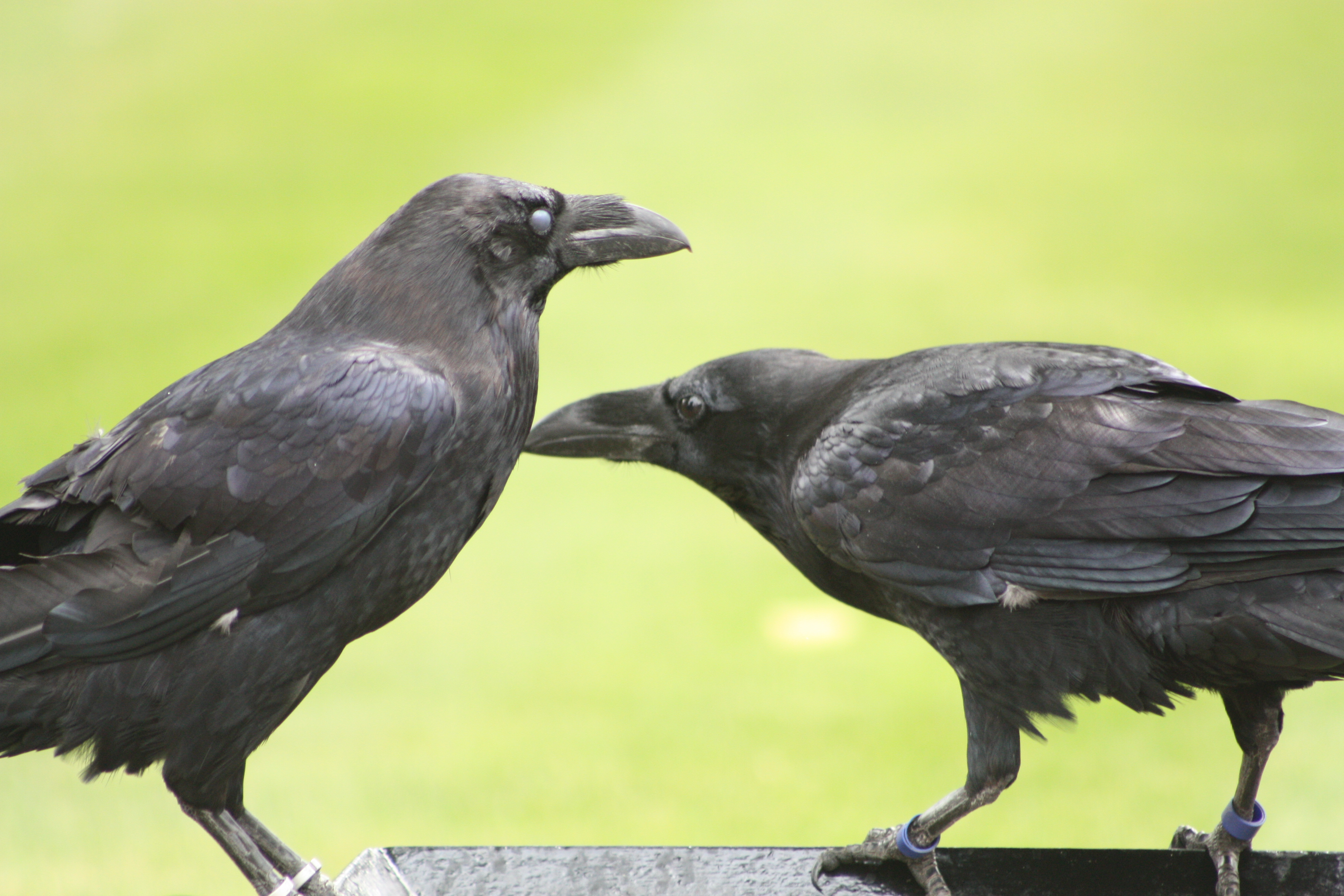 Two ravens standing guard at the Tower of London.